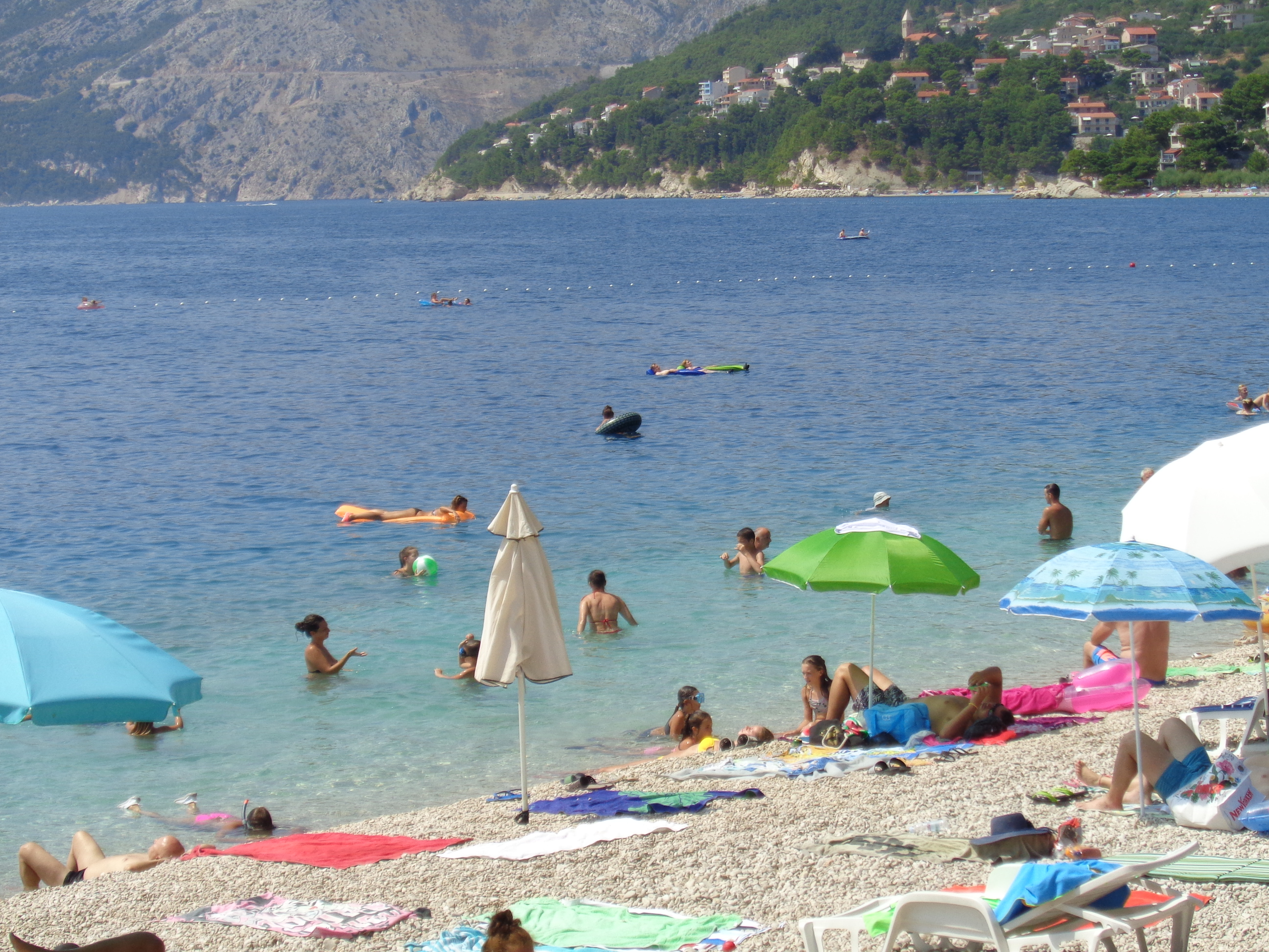 Brela, Split-Dalmatia County, Croatia - Punta Rata beach (northwest view)